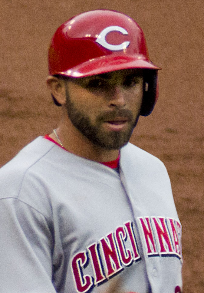 José Peraza of the Cincinnati Reds, 2017.